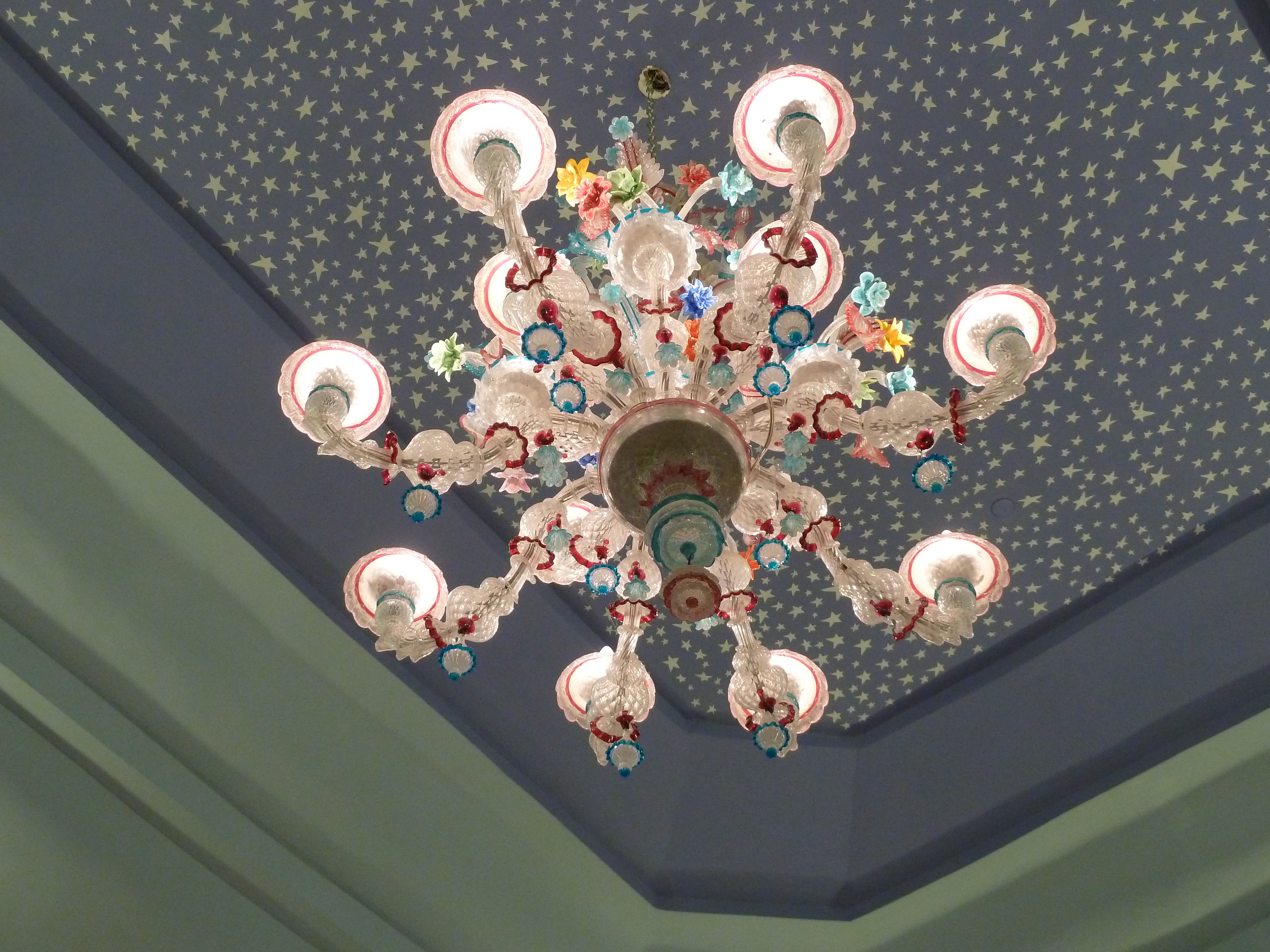 Jerusalem, Yemin Moshe, Great Sephardic Synagogue - beautiful lamp in Morano glass